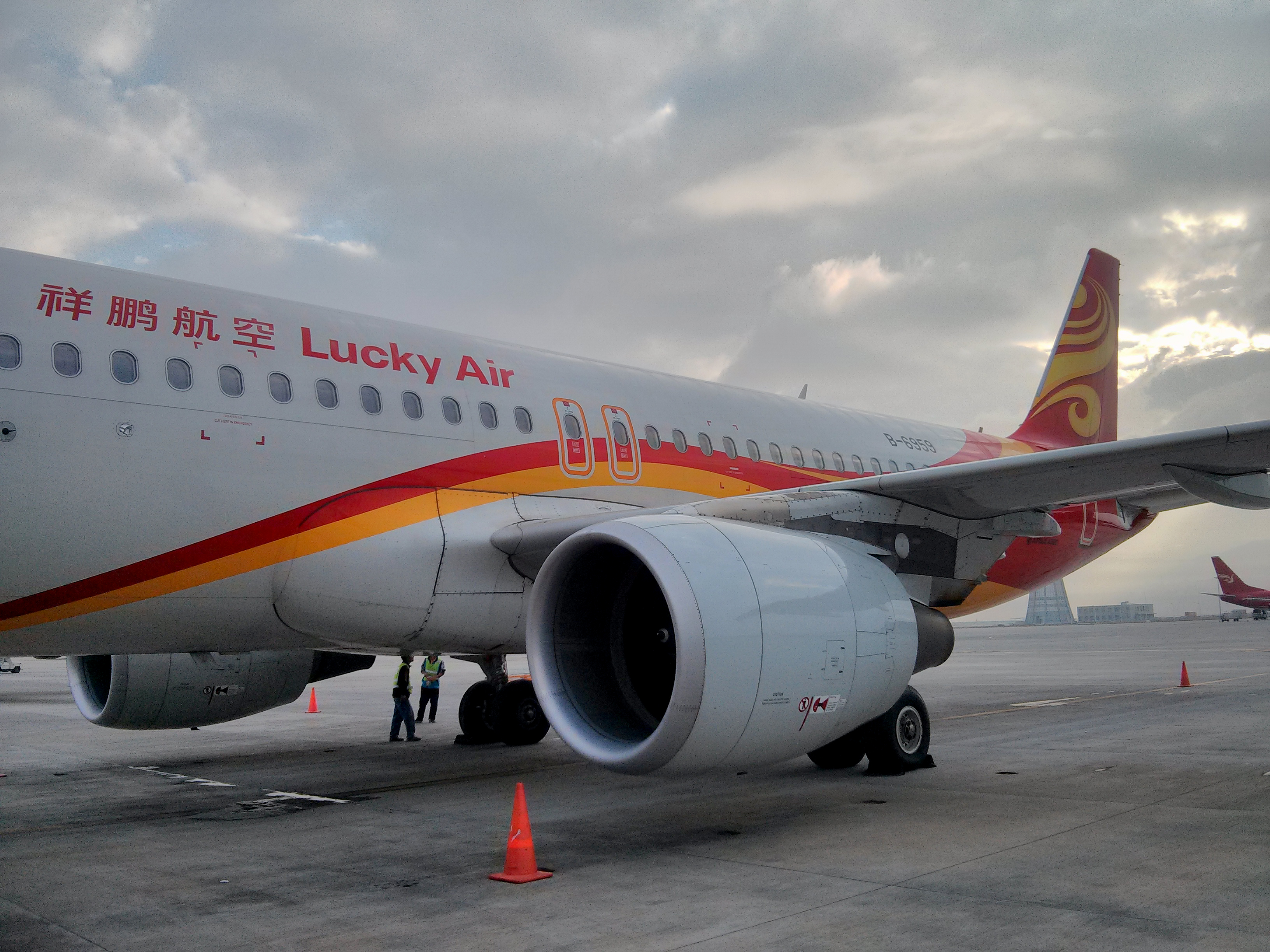 An Airbus A320-200 of Lucky Air at Kunming Changshui International Airport in November 2013.